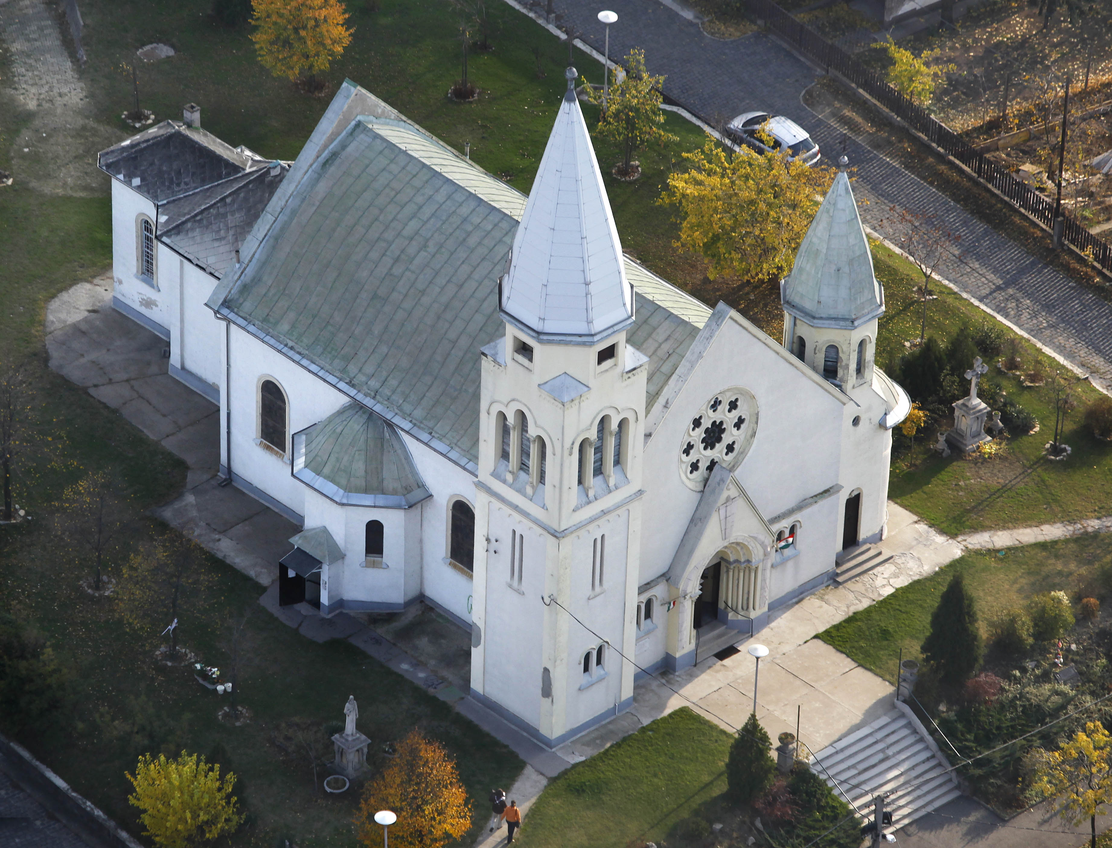 XX. District Budapest, Hungary, aerial photography, temple